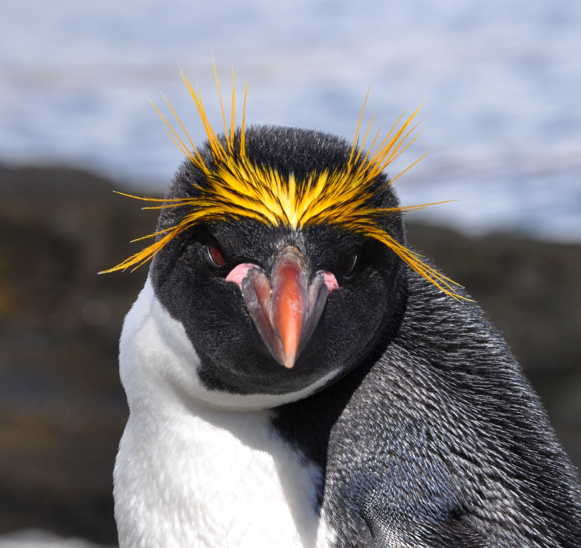 Macaroni Penguin (Eudyptes chrysolophus) - South Georgia